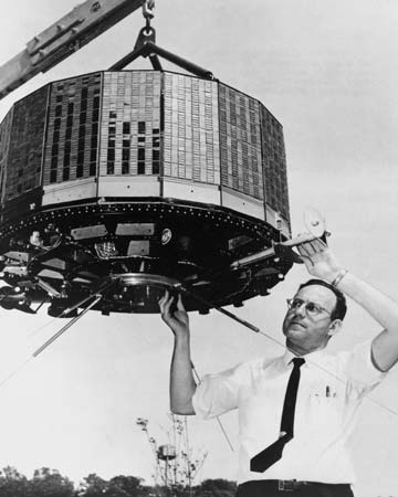 TIROS 3 satellite (mockup, model or copy) for use at the Parade of Progress show at the Public Hall, Cleveland, Ohio, USA